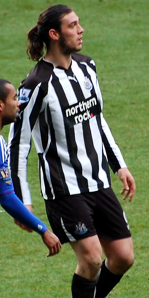 Andy Carroll cropped